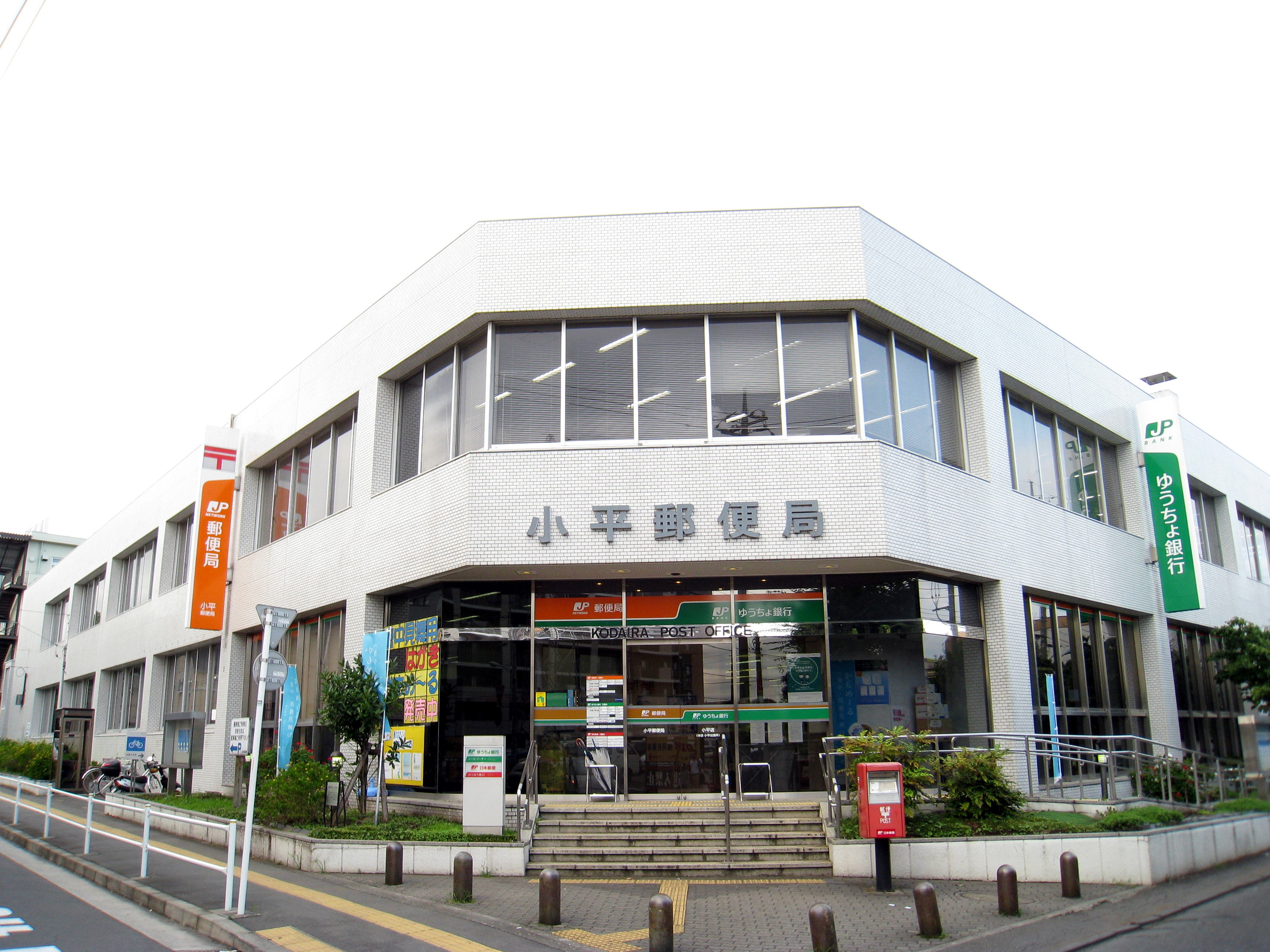 Kodaira postoffice. Kodaira-city,Tokyo,Japan